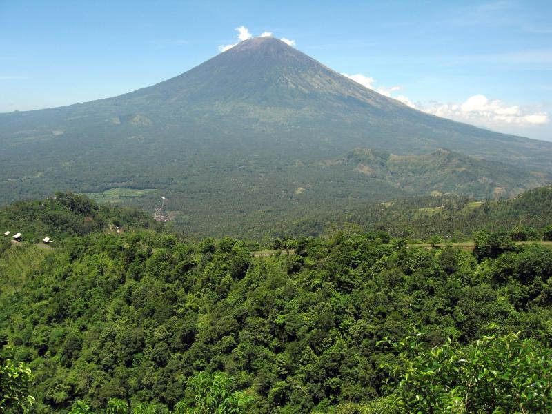 eastern Bali, Mount Agung, eastern profile.